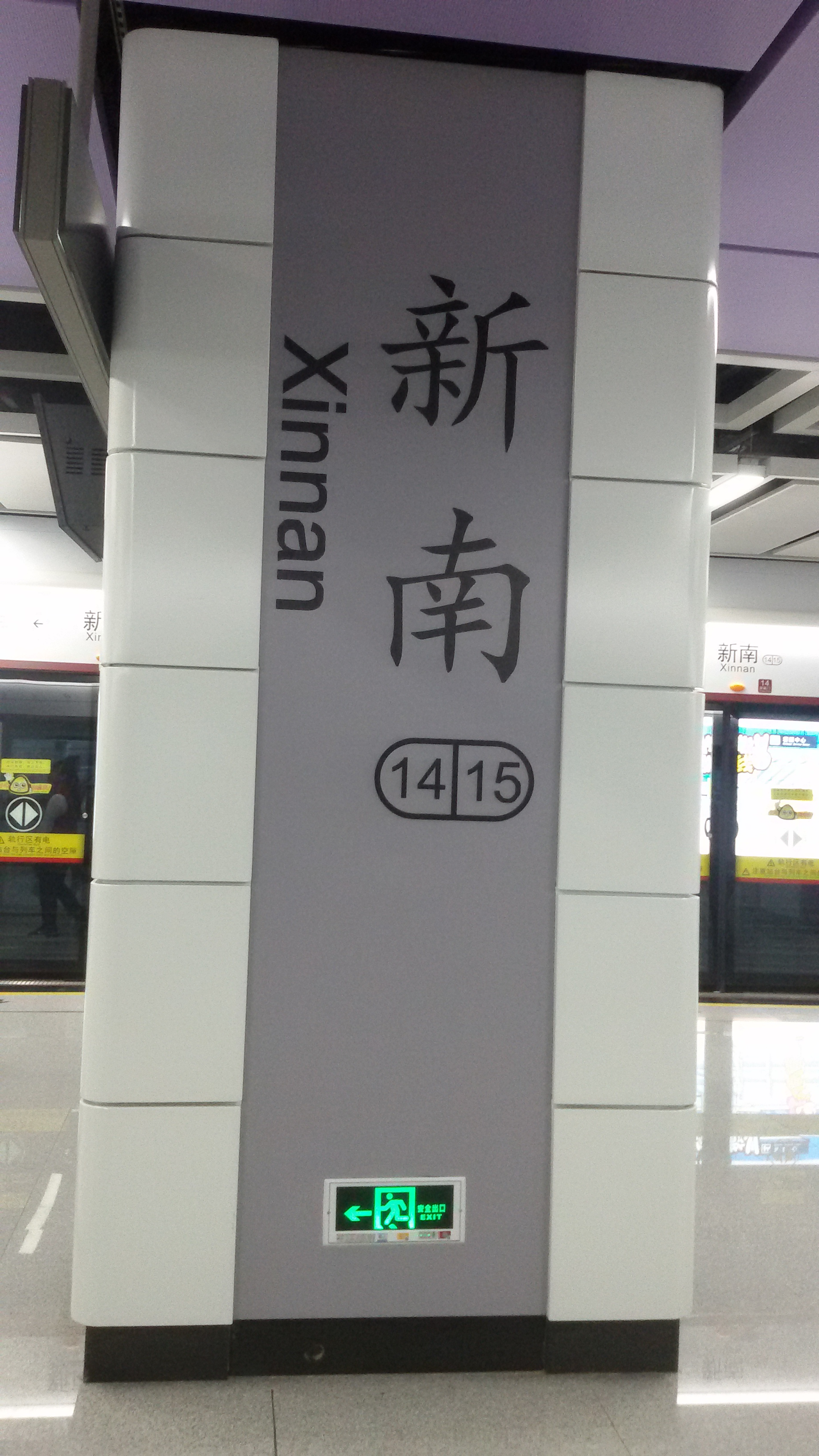 WORD on PILLAR for Xinnan Station in Guangzhou Metro